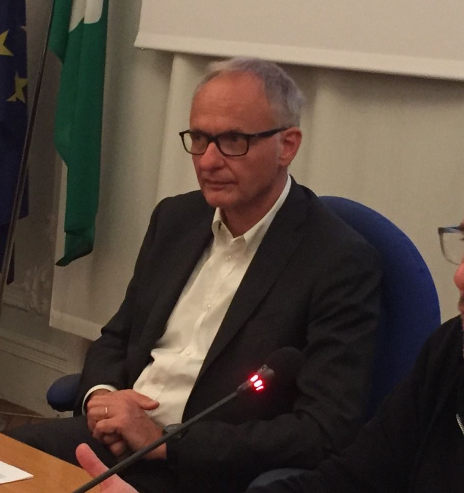 Michele Brambilla, italian journalist, presenting a book at Premio Chiara, Varese